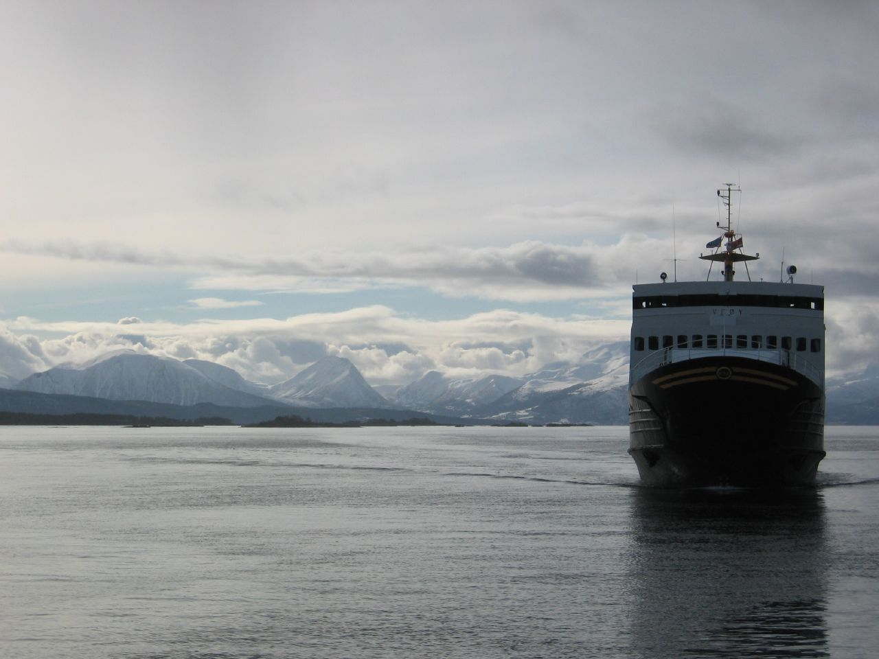 An old ferry to take us across the fjord